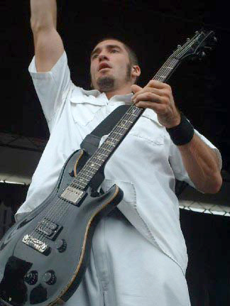 Clint Lowery, lead guitarist of the Heavy Metal band Sevendust. Photo by Arashinc